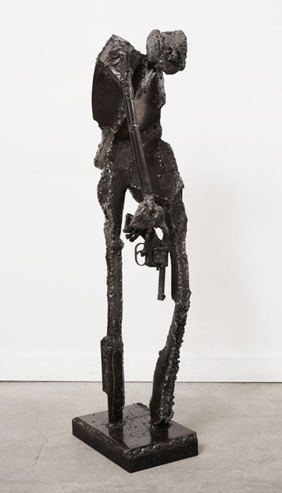 Iron sculpture by Danish artist Tejn.